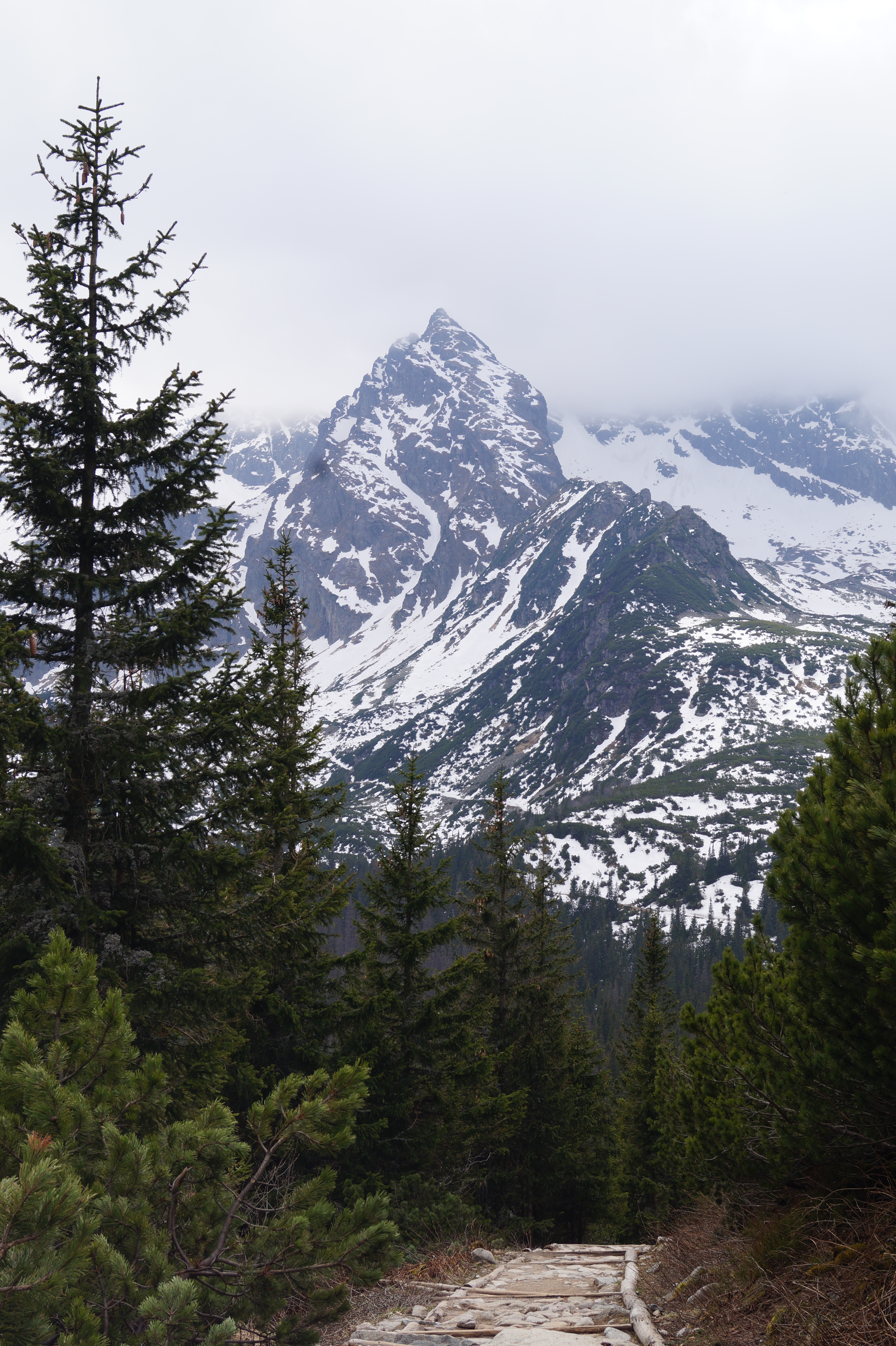 Koscielec mountain, view from Krolowe Rowienki, Hala Gasienicowa(Tatras)